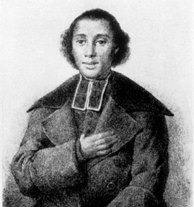 David Boilat (1814-1901)